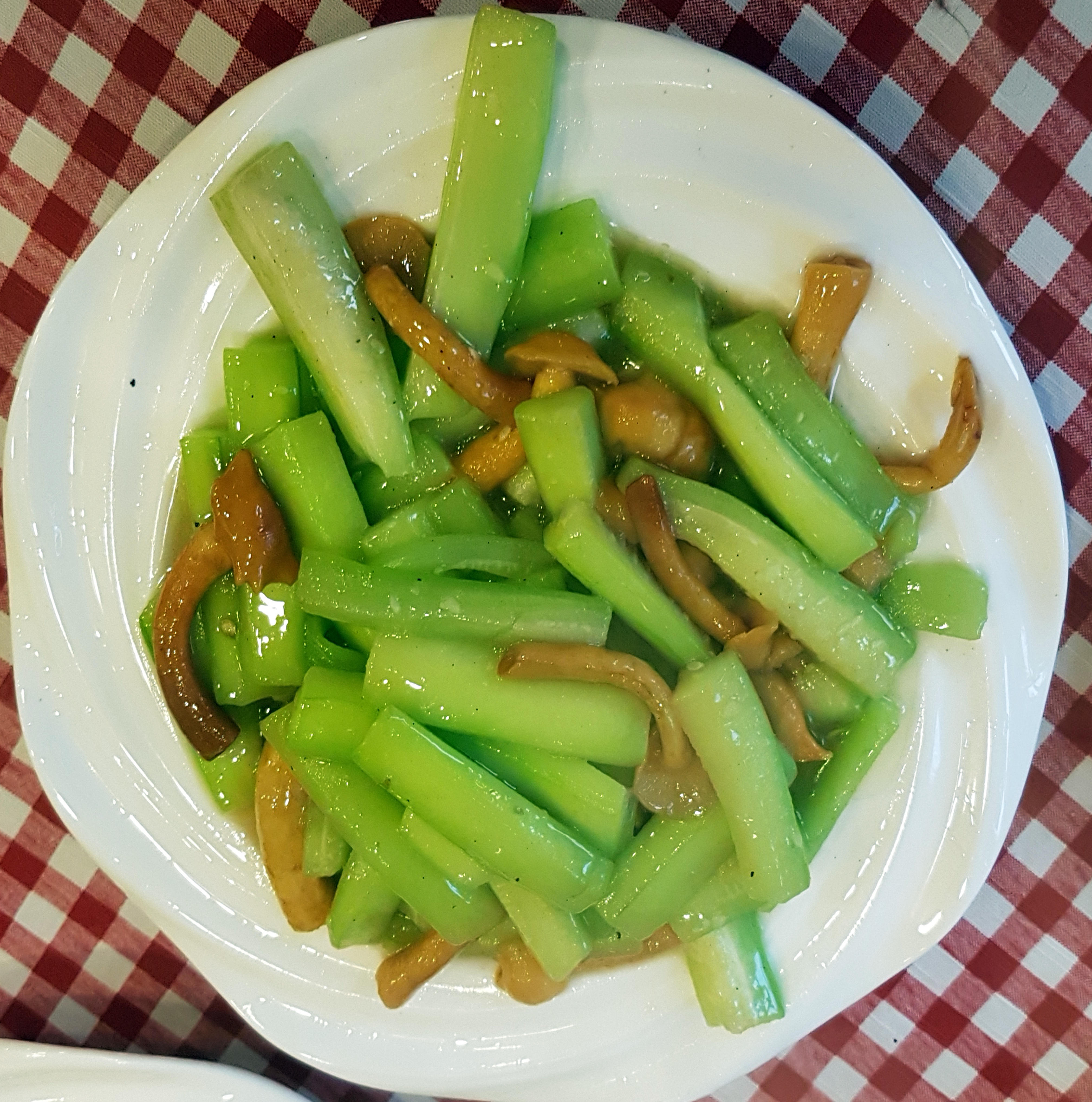 Vegetable dish "Fried Loofah with Pholiota Nameko" at a Beijing Restaurant, China